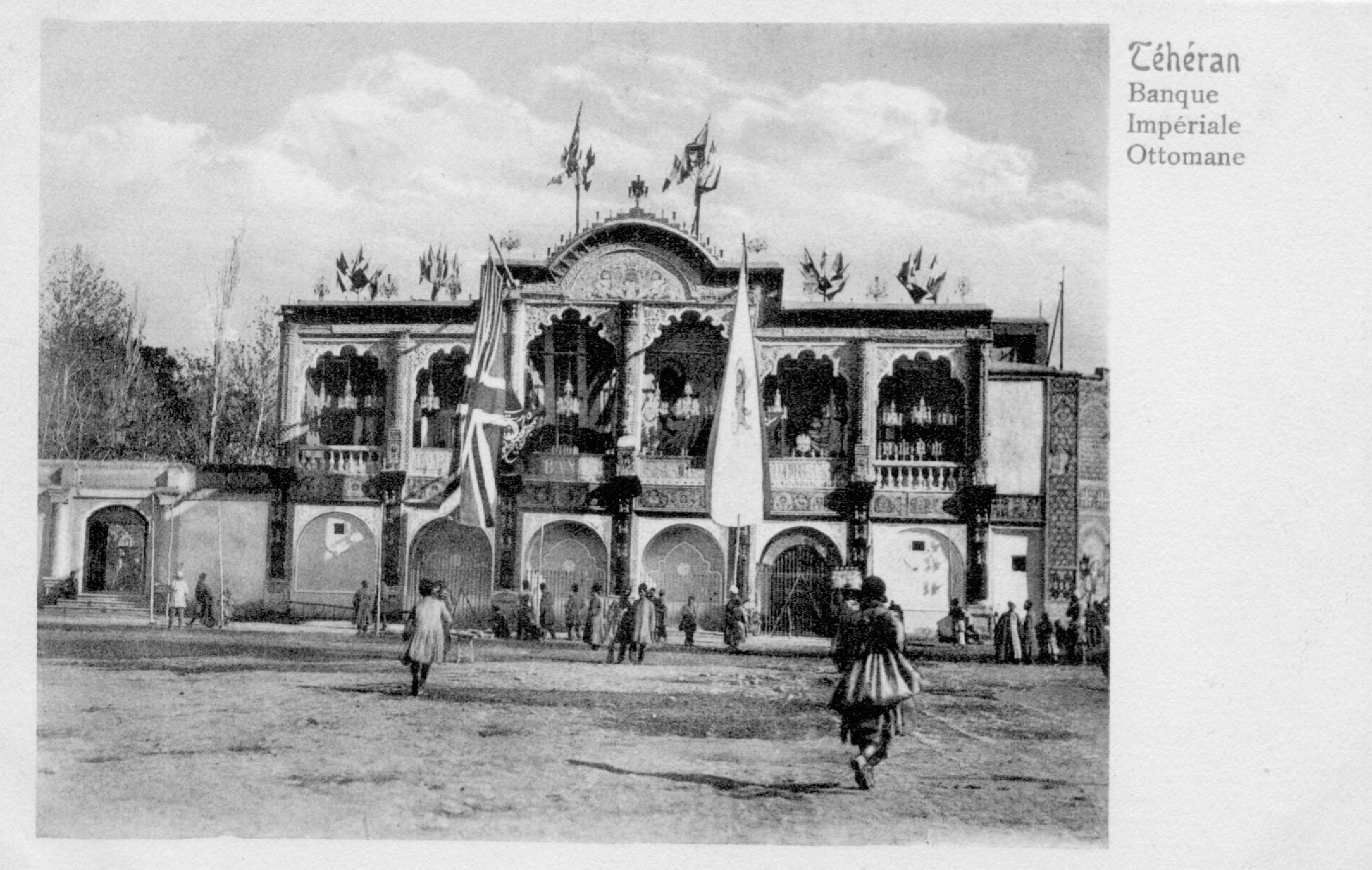 Ottoman Bank Tehran Branch. SALT Research Ottoman Bank Archives Osmanlı Bankası Tahran Şubesi. SALT Araştırma Osmanlı Bankası Arşivleri